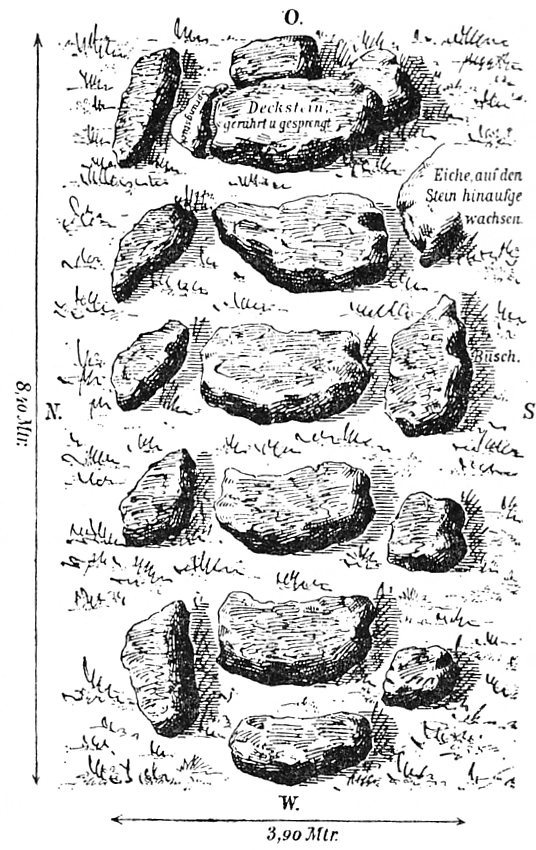 Megalithic Tomb Stormstorf 1 (Sprockhoff-No. 344)